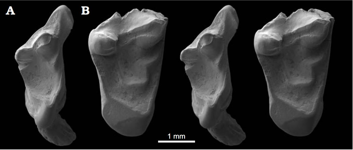 Stereo scanning electron micrographs of studied eutherian mammal specimens from the Berriasian Purbeck Group of Dorset, southern England; in occlusal view: A. – Durlstotherium newmani gen. et sp. nov., B. – Durlstodon ensomi gen. et sp. nov.